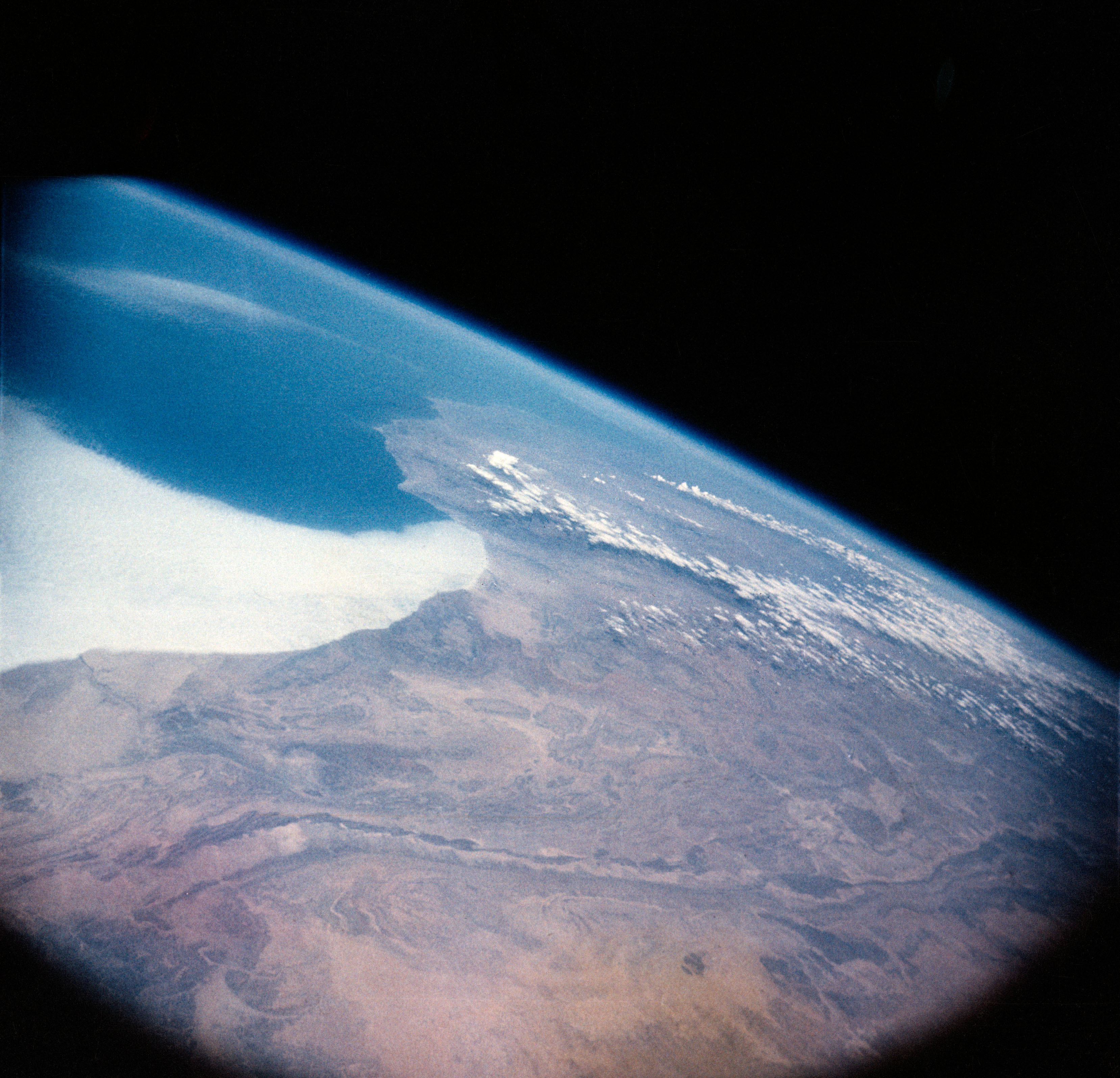 Earth observations from Mercury-Atlas 4